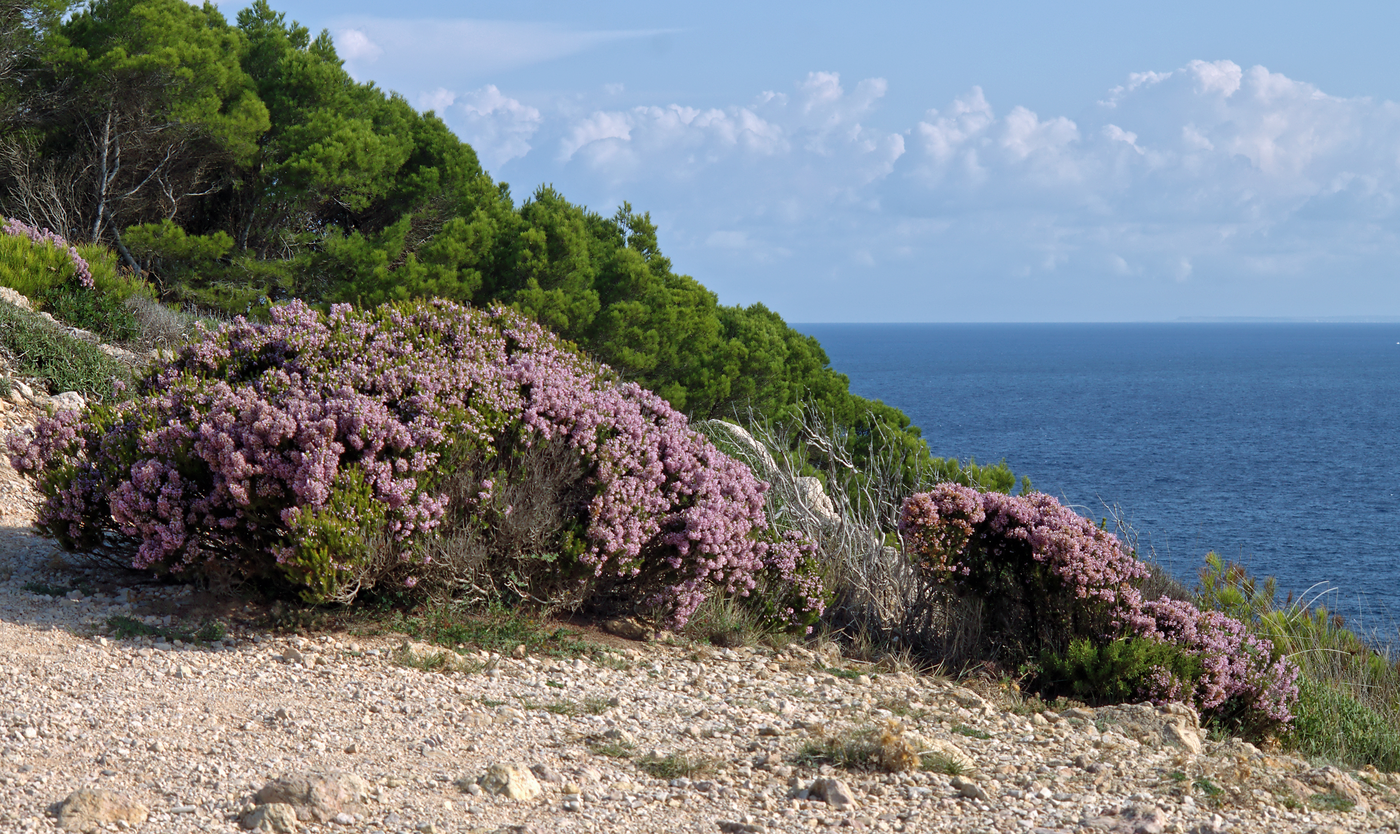 Mediterranean Heath; habitus; Punta de Capdepera, Majorca, Spain.